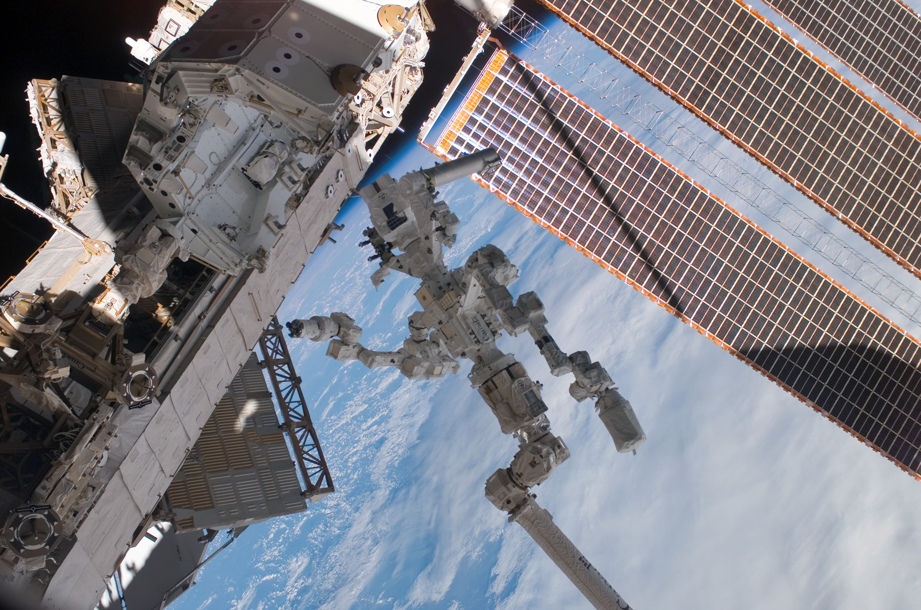 In the grasp of the station's robotic Canadarm2, Dextre (center), also known as the Special Purpose Dextrous Manipulator (SPDM), is featured in this image photographed by a crewmember on the International Space Station while Space Shuttle Endeavour is docked with the station. Also pictured are solar array panels (right) and a section of a station truss (left). A blue and white Earth provides the backdrop for the scene